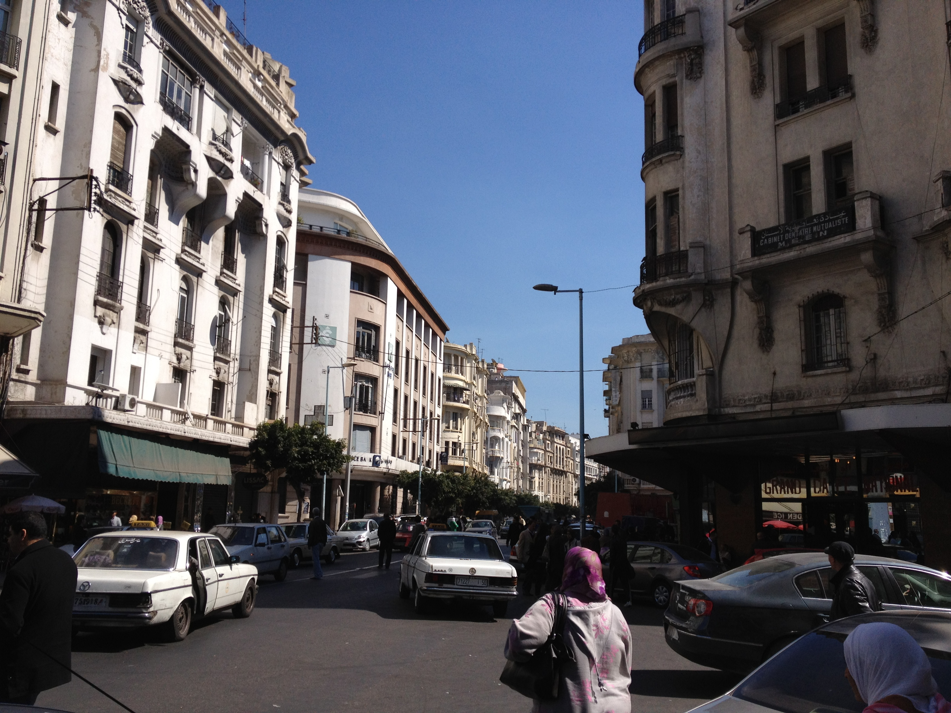 Avenue de Paris in Casablanca.